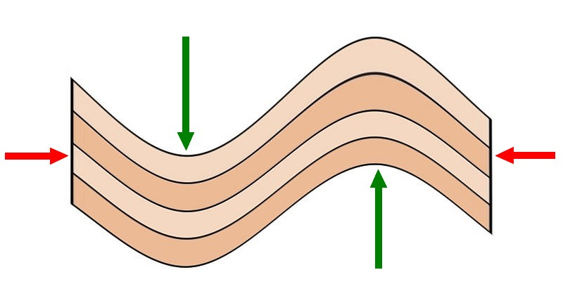 Folding: Buckling (red) and Bending (green)